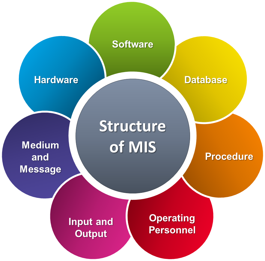 Structure and Functions of MIS